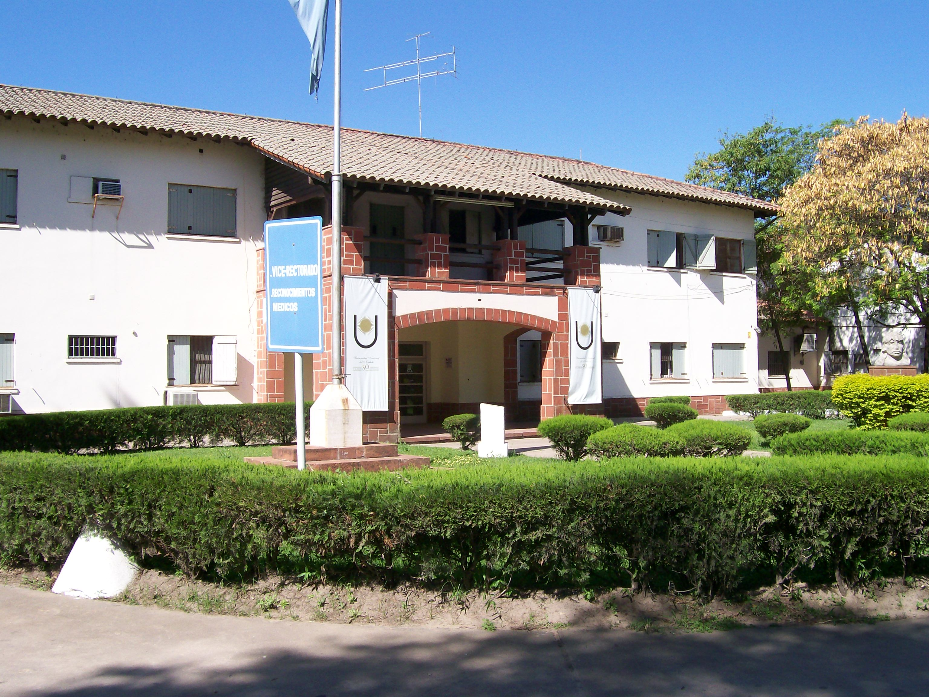 Front view of Universidad Nacional del Nordeste's Vice Rectorado in Resistencia, Chaco, Argentina. You can see a bust of a typycal Chaco indian.